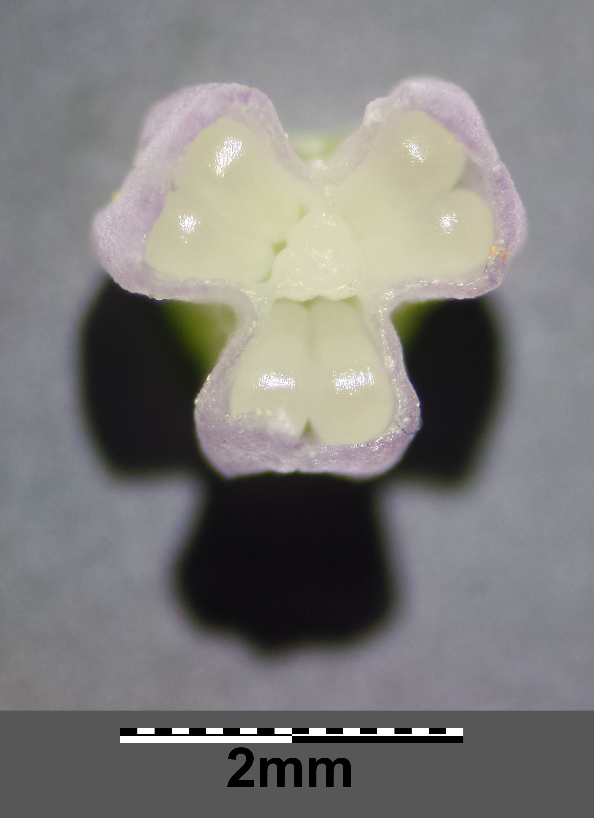 Ovary cut through, with two seeds per tray Taxonym: Allium lusitanicum ss Fischer et al. EfÖLS 2008 ISBN 978-3-85474-187-9 Location: Waldberg in between Kleinebersdorf und Großrußbach, district Korneuburg, Lower Austria - ca. 334 m a.s.l. Habitat: semi-dry grassland